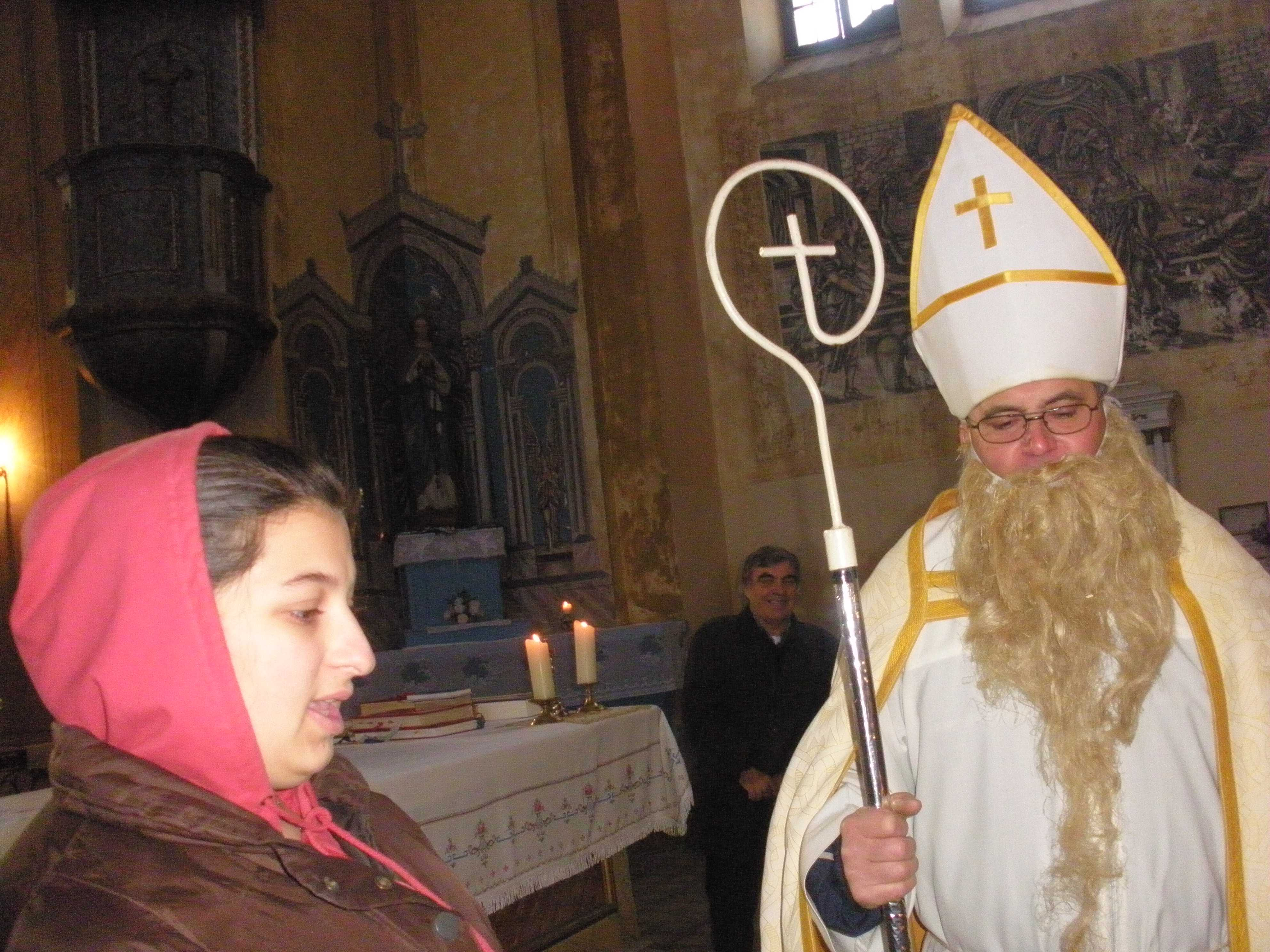 Girl retiting before Mikulás in Ečka on 5. XII. 2010